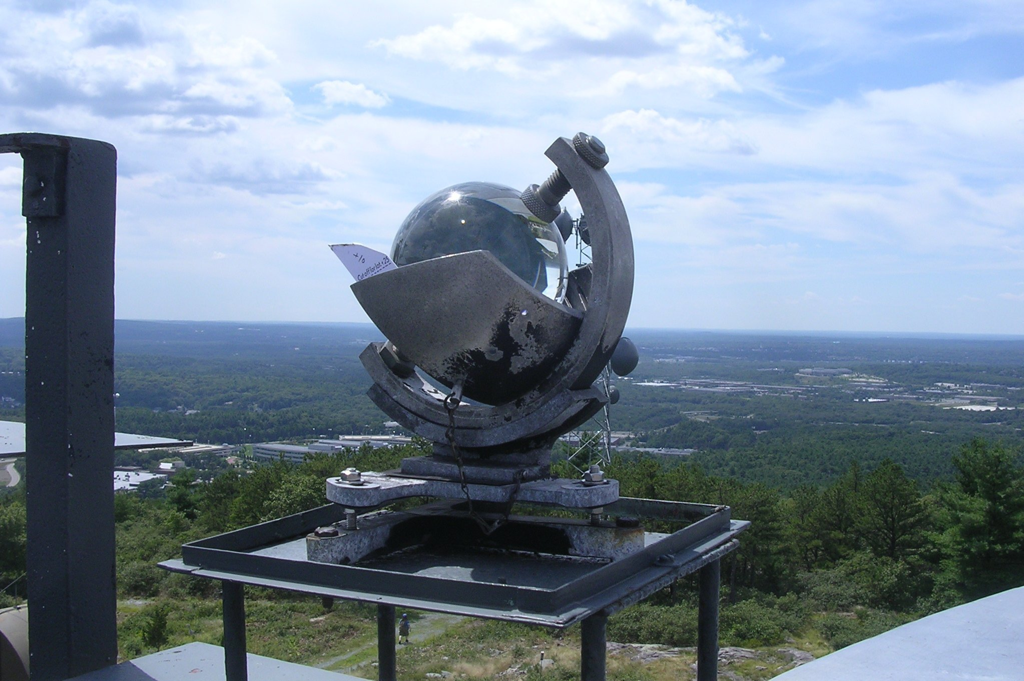 Campbell–Stokes recorder, Blue Hill Meteorological Observatory, Milton Massachusetts